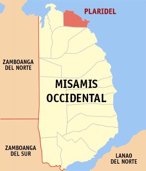 Map of the Misamis Occidental showing the location of Plaridel